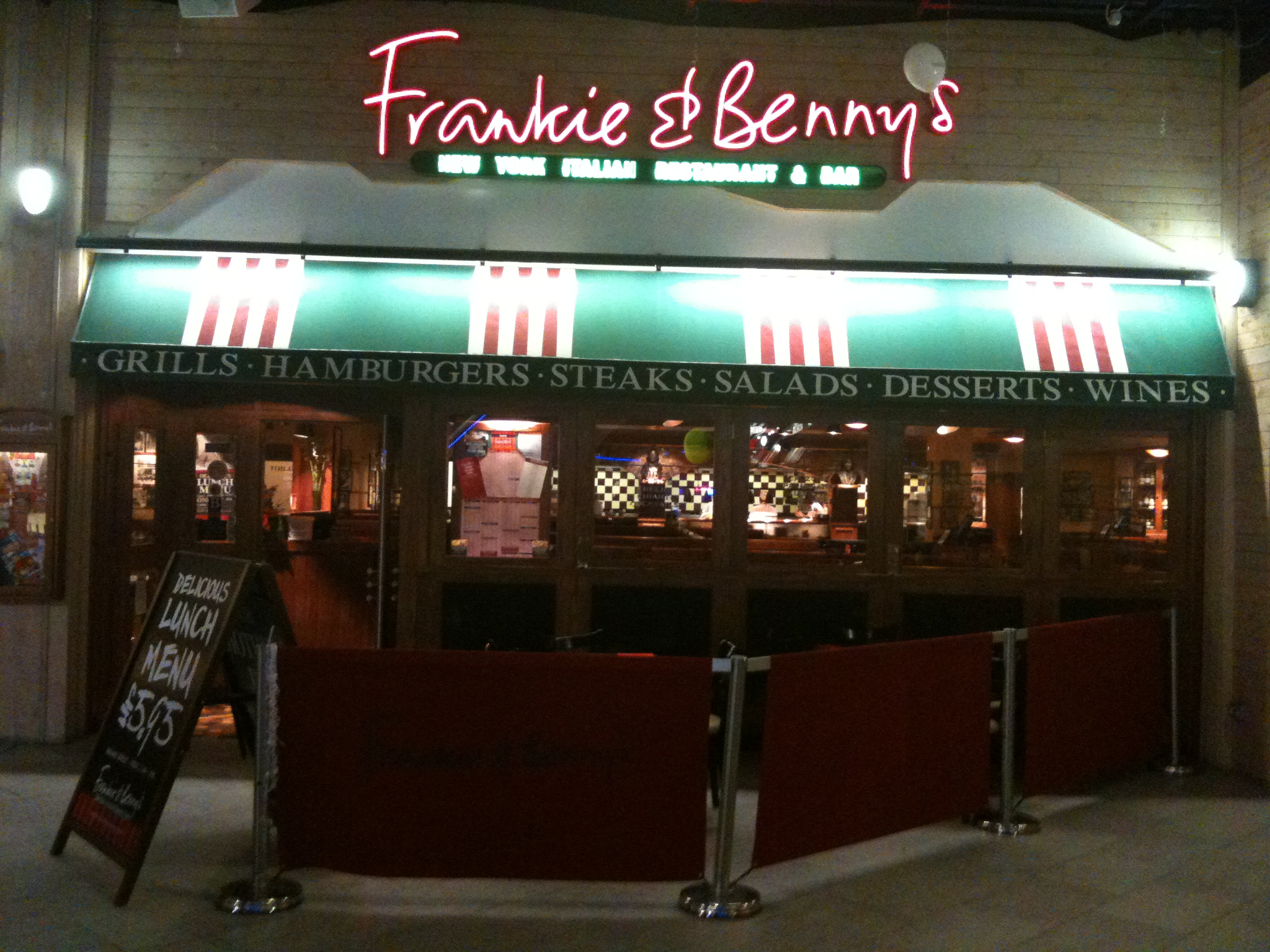 Front view of Frankie & Benny's restaurant in Xscape building, Scotland.